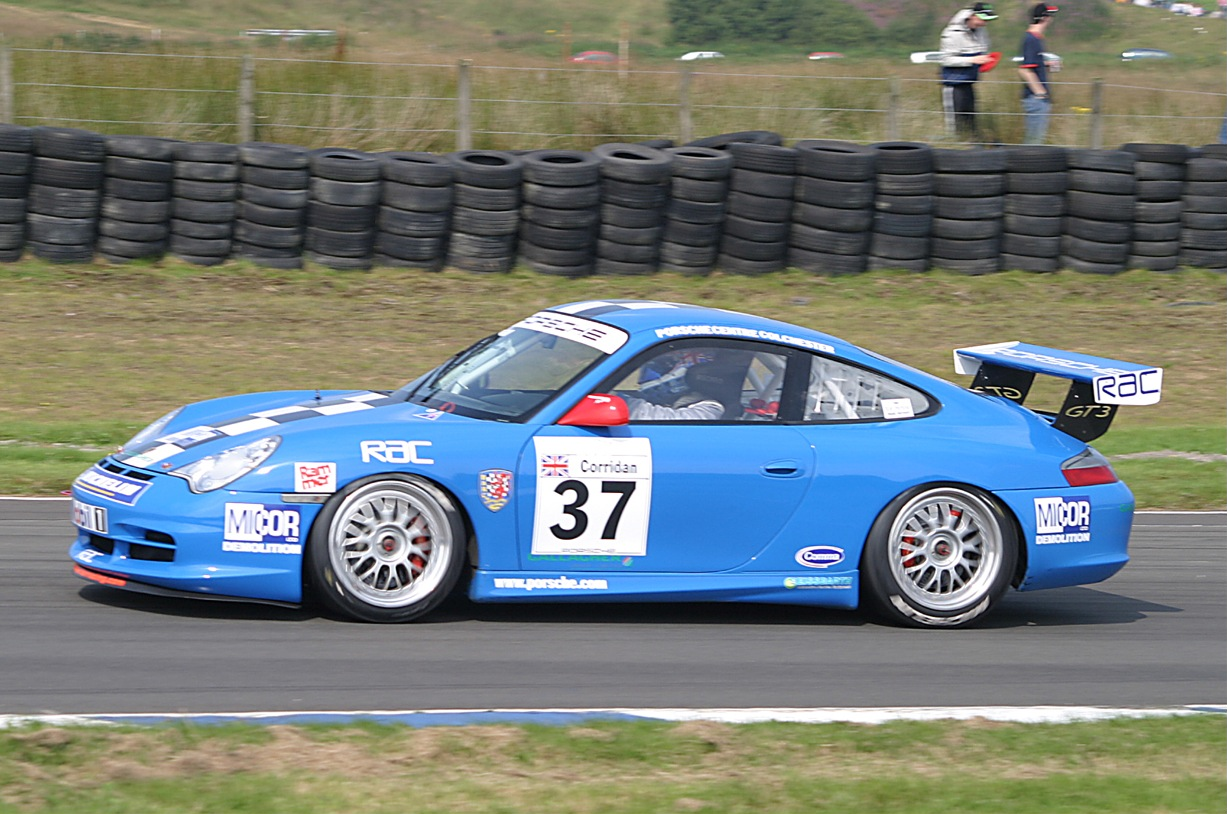 Knockhill 2004, Porsche Super Cup car. Panning like a mentalist!No 37